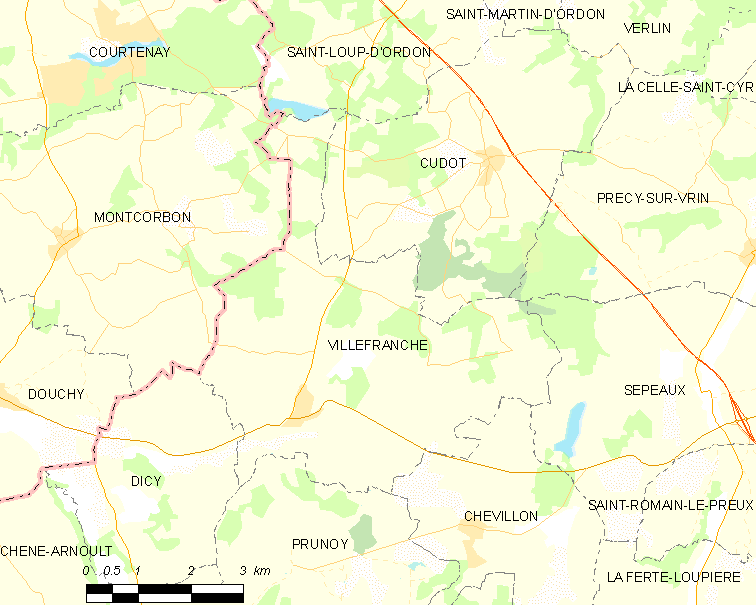 Map of French municipality Villefranche